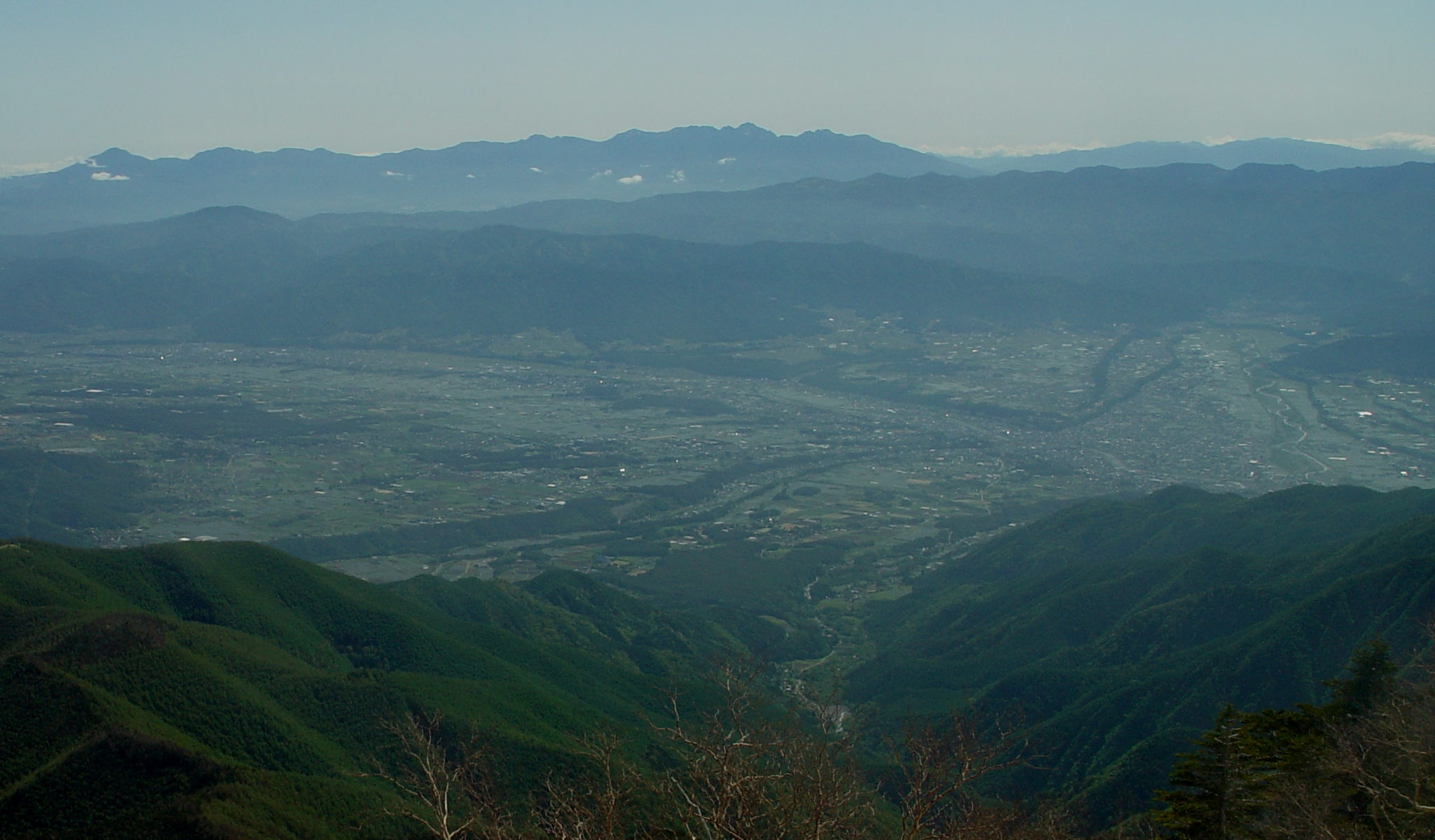 Ina, Nagano and Southern Yatsugatake Volcanic Group seen from Mount Chausu of Kiso Mountains